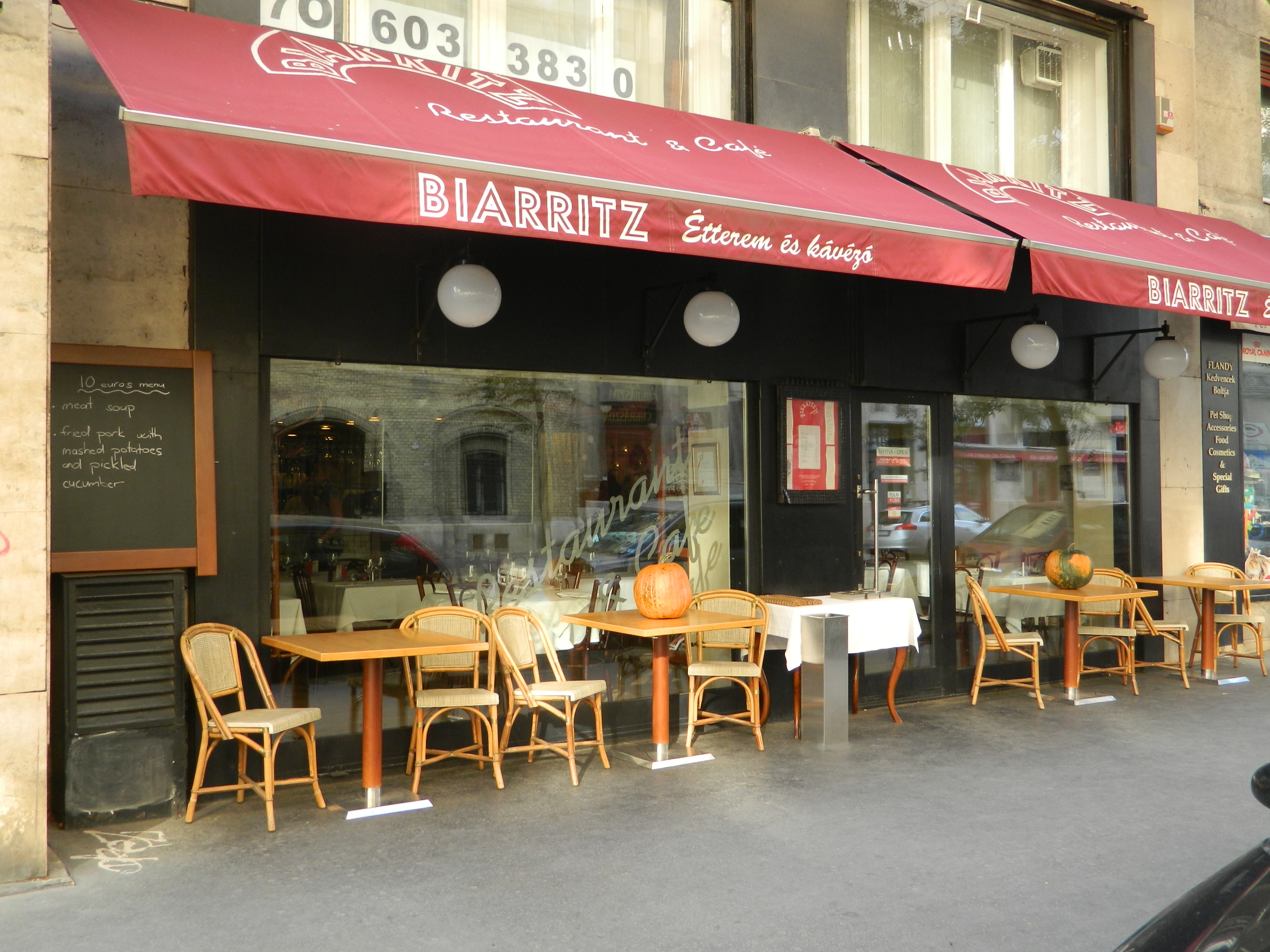 Portal of the Biarritz cafe in Budapest